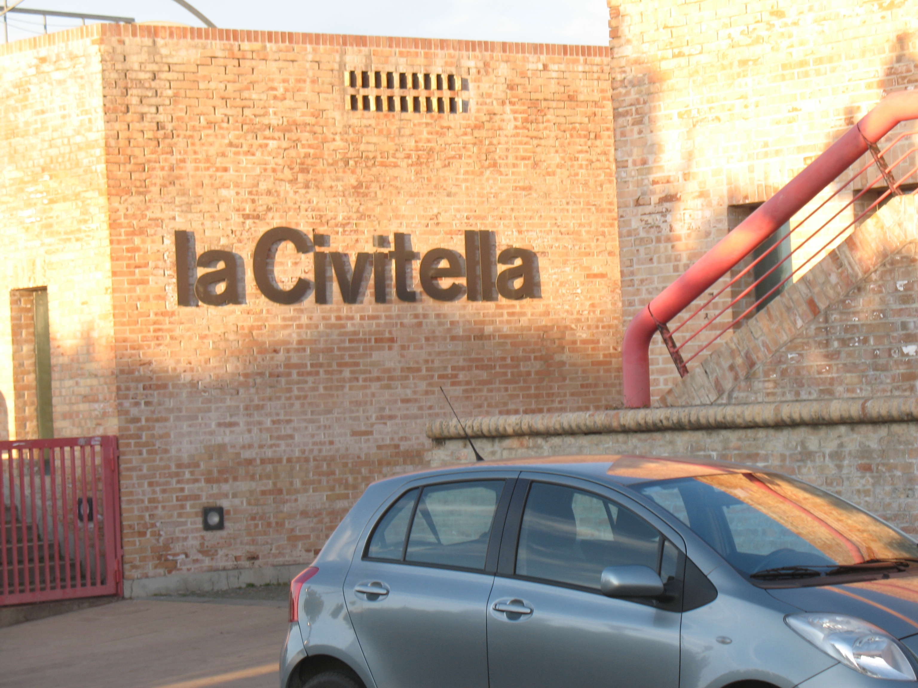 Entrace of the Chieti's archeological museum, which was founded in 1938 and is now placed in archeological site of ancient Teate Marrucinorum.